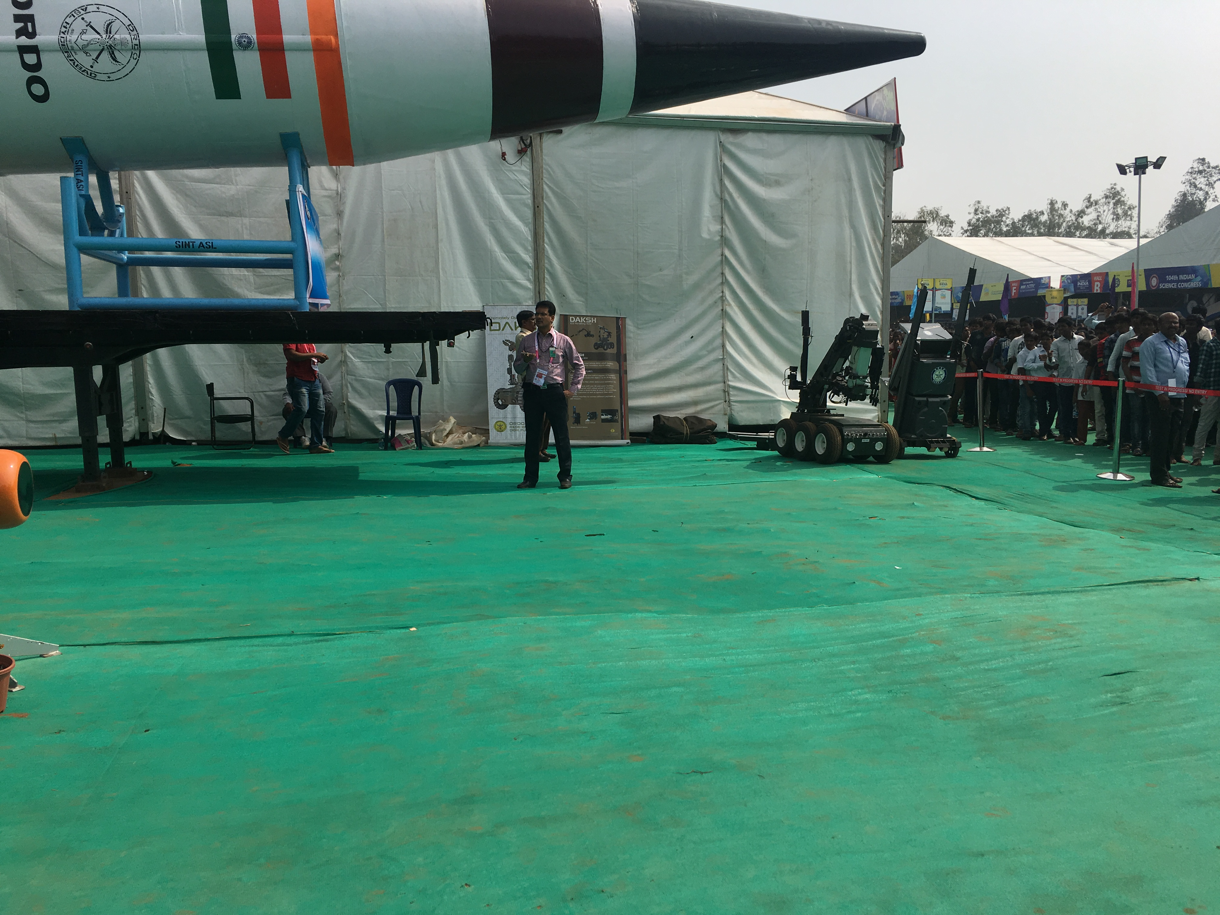 Agni-V is an intercontinental ballistic missile developed by the Defence Research and Development Organisation (DRDO) of India.